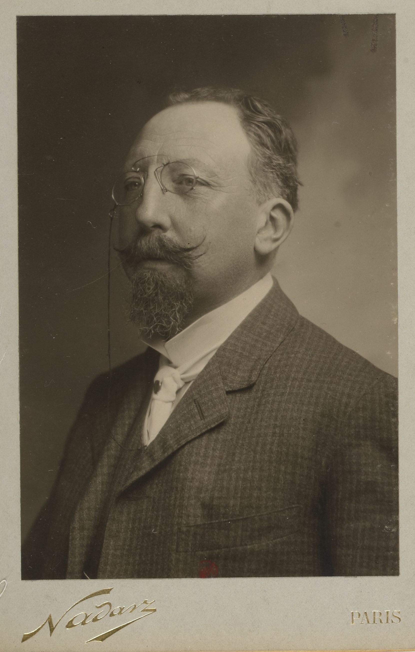 French Entomologist